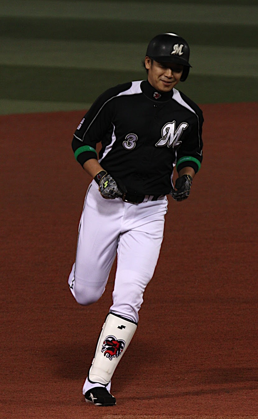 Saburo Ohmura, outfielder of the Chiba Lotte Marines, at Yokohama Stadium.